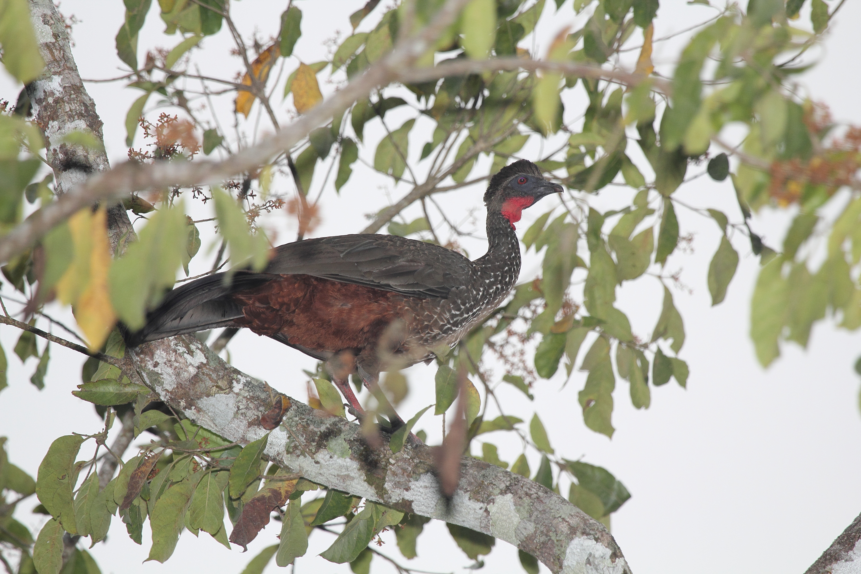 Crested Guan (Penelope purpurascens)